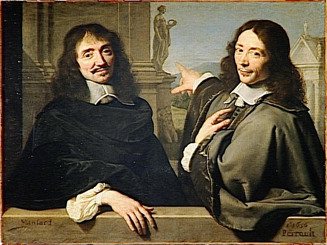 Said to be a double portrait of François Mansard and Claude Perrault